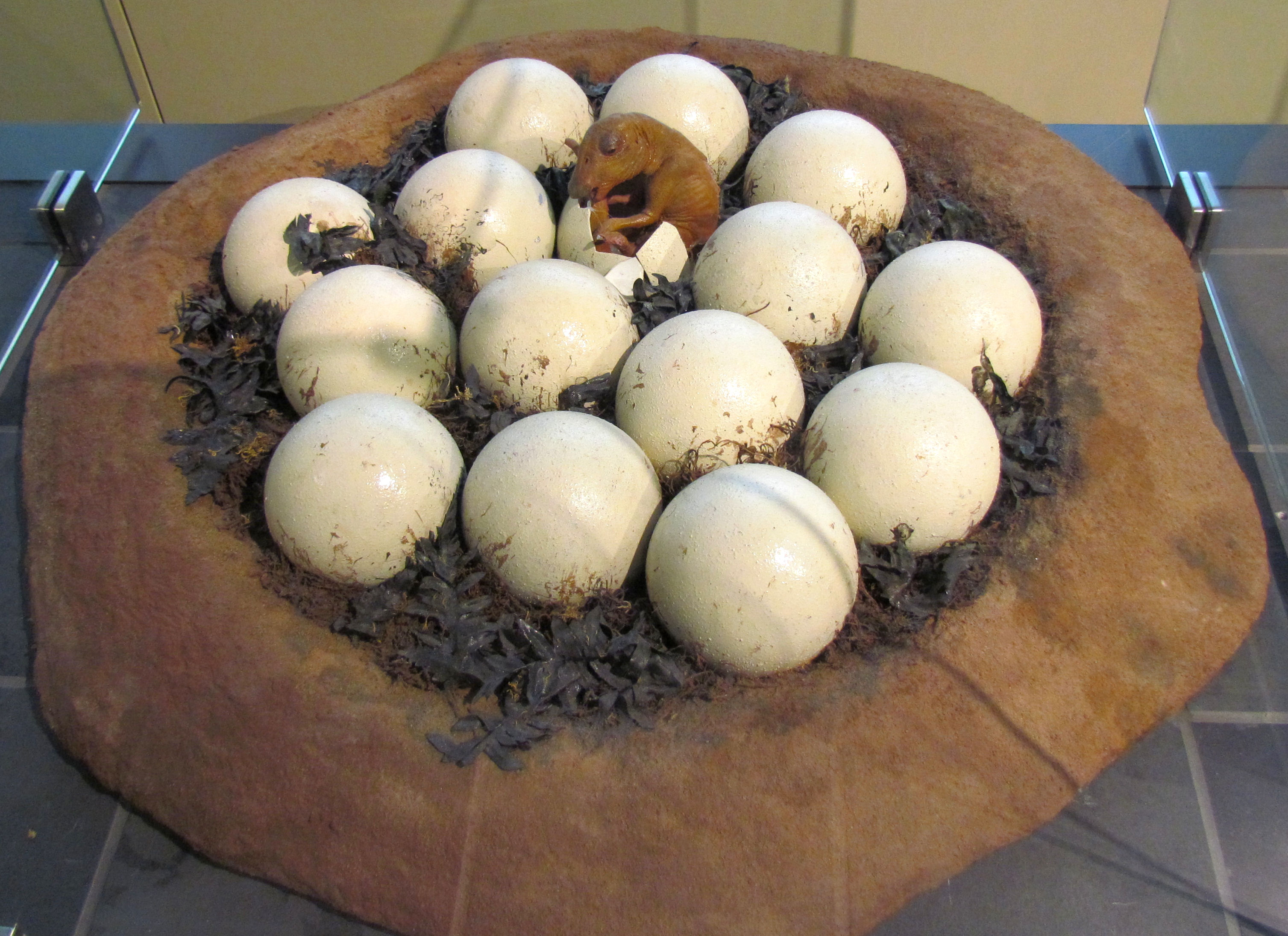 Reconstruction of Maiasaura nest at Canadian Museum of Nature, Ottawa, Ontario